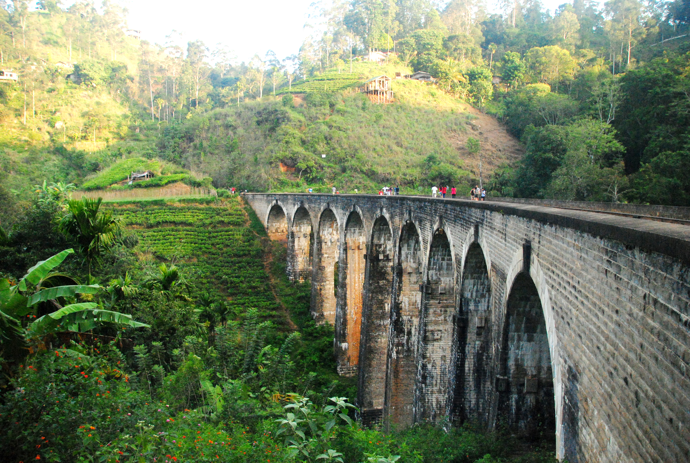 Nine Arches Bridge, Sri Lanka.